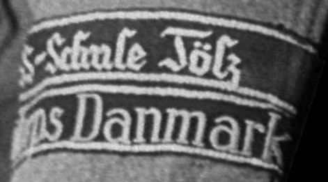 Cuff title of the SS-School Bad Tölz - "Freikorps Danmark" partially visible